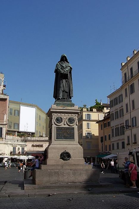 Paminklas Džordanas Bruno